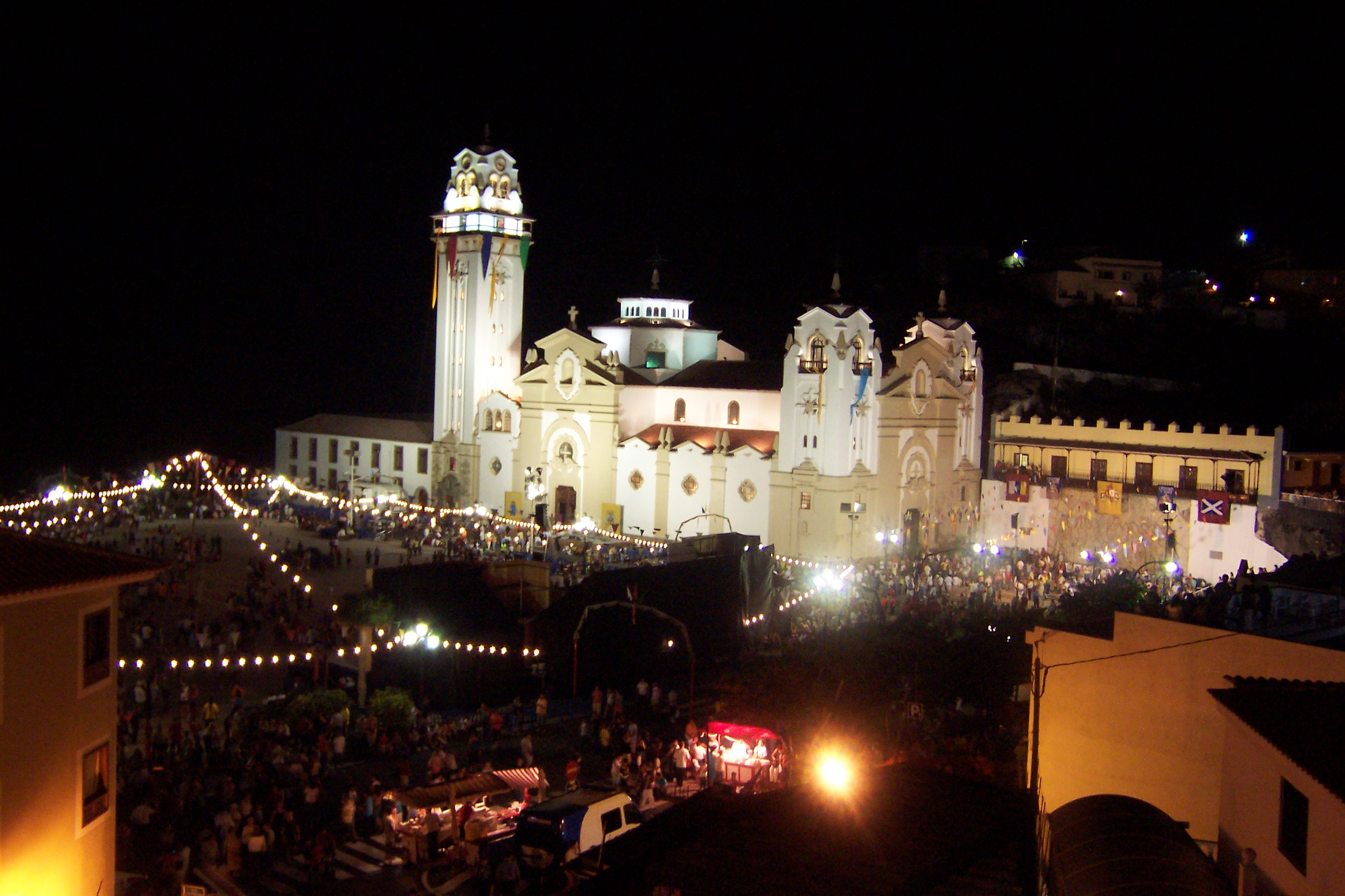 Basilica de Candelaria, Tenerife during the fiestas de Candelaria